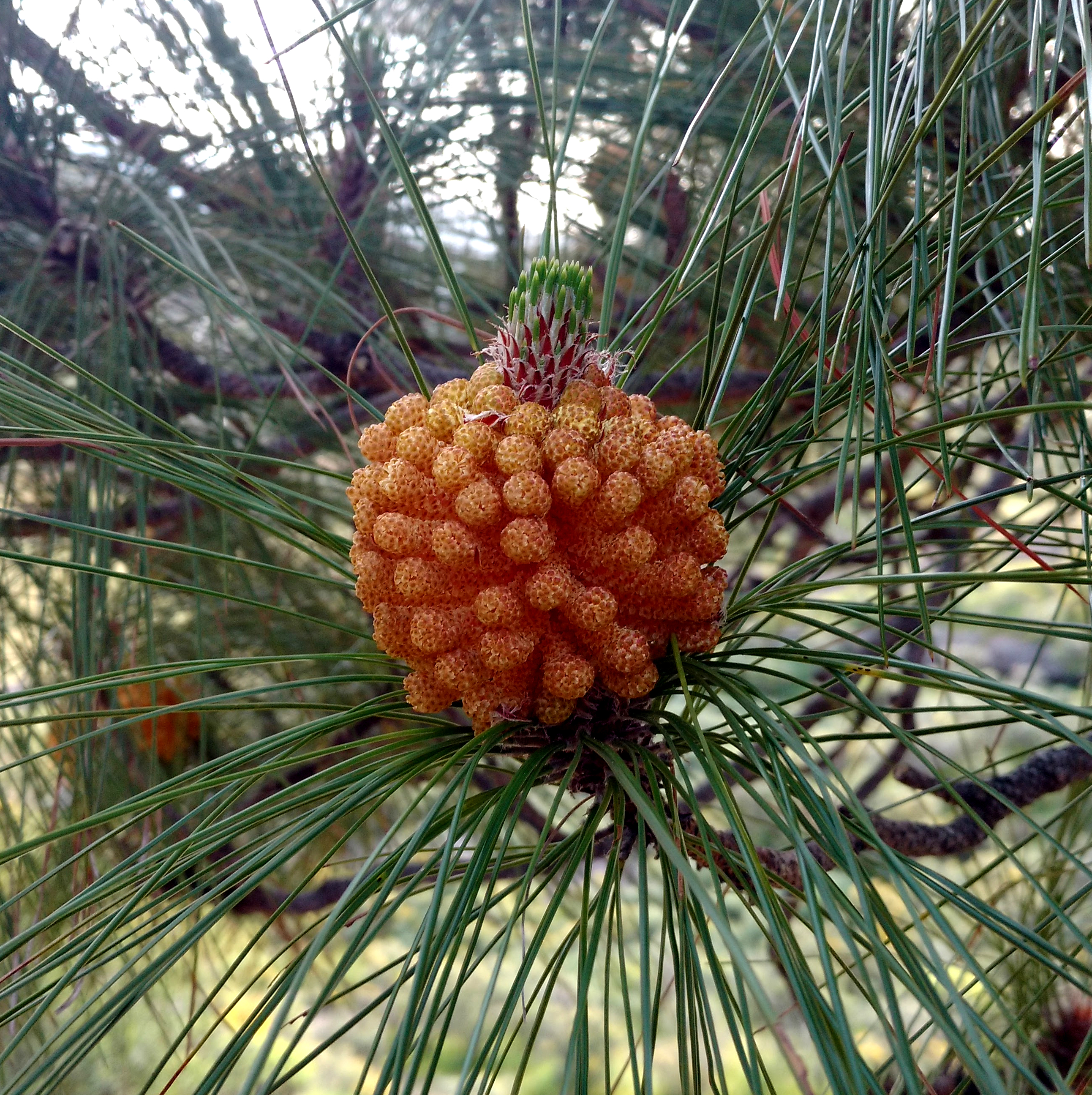 Microstrobilus (male cone) of Pinus canariensis in Presa de Las niñas